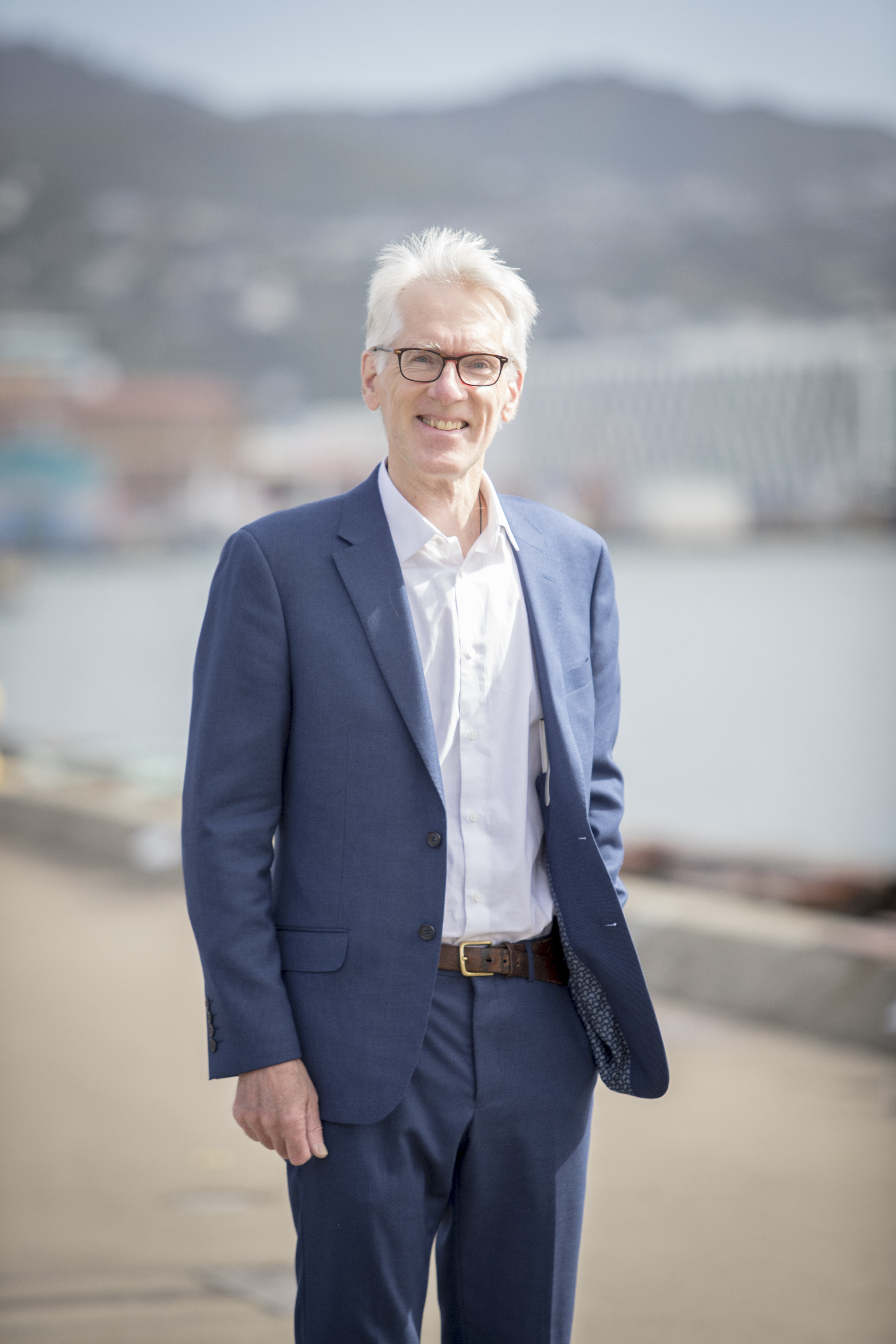 Paul Hunt standing on the waterfront in Wellington